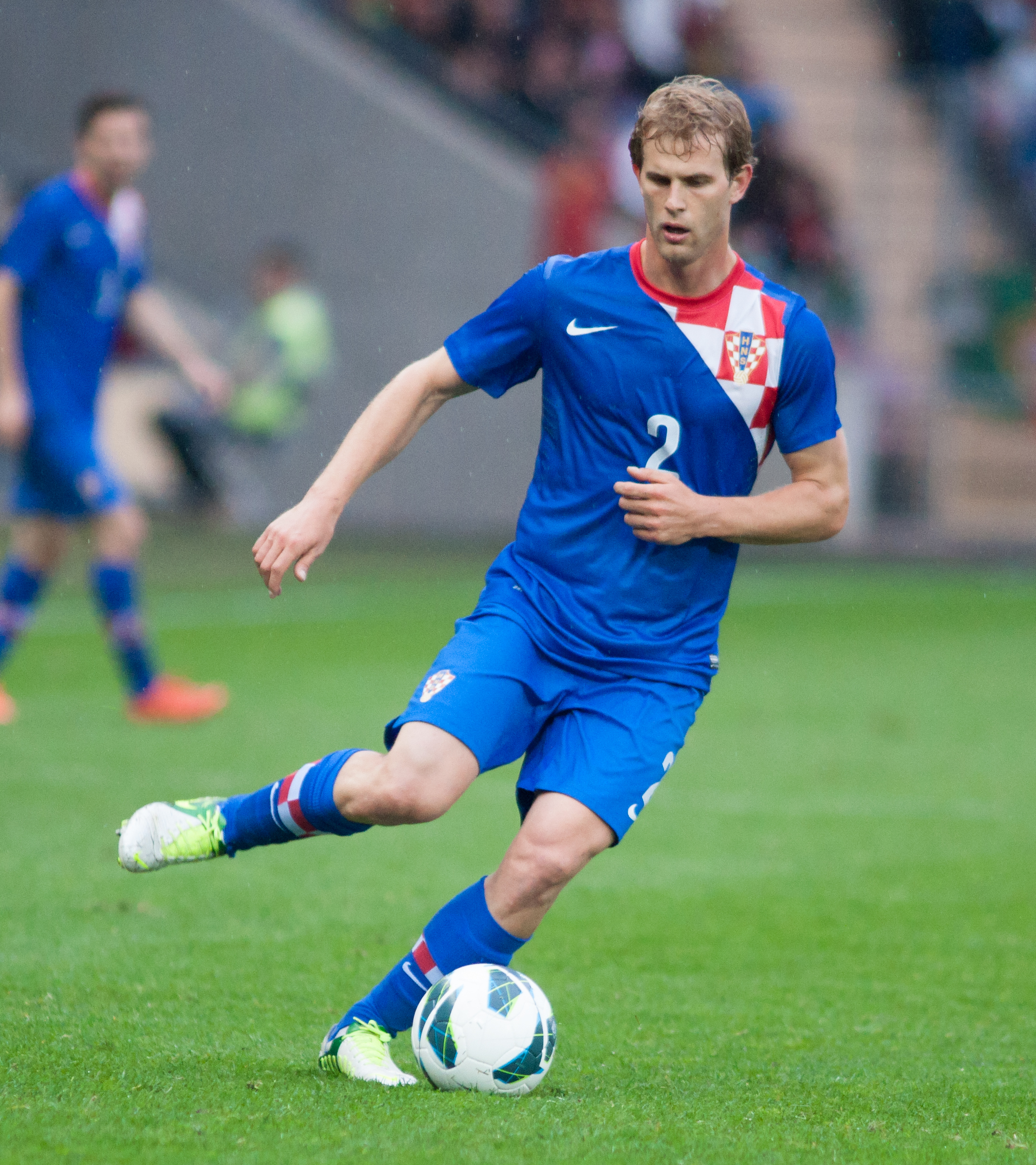 Croatia vs. Portugal, 10th June 2013. Croatian left-back Ivan Strinić in action.